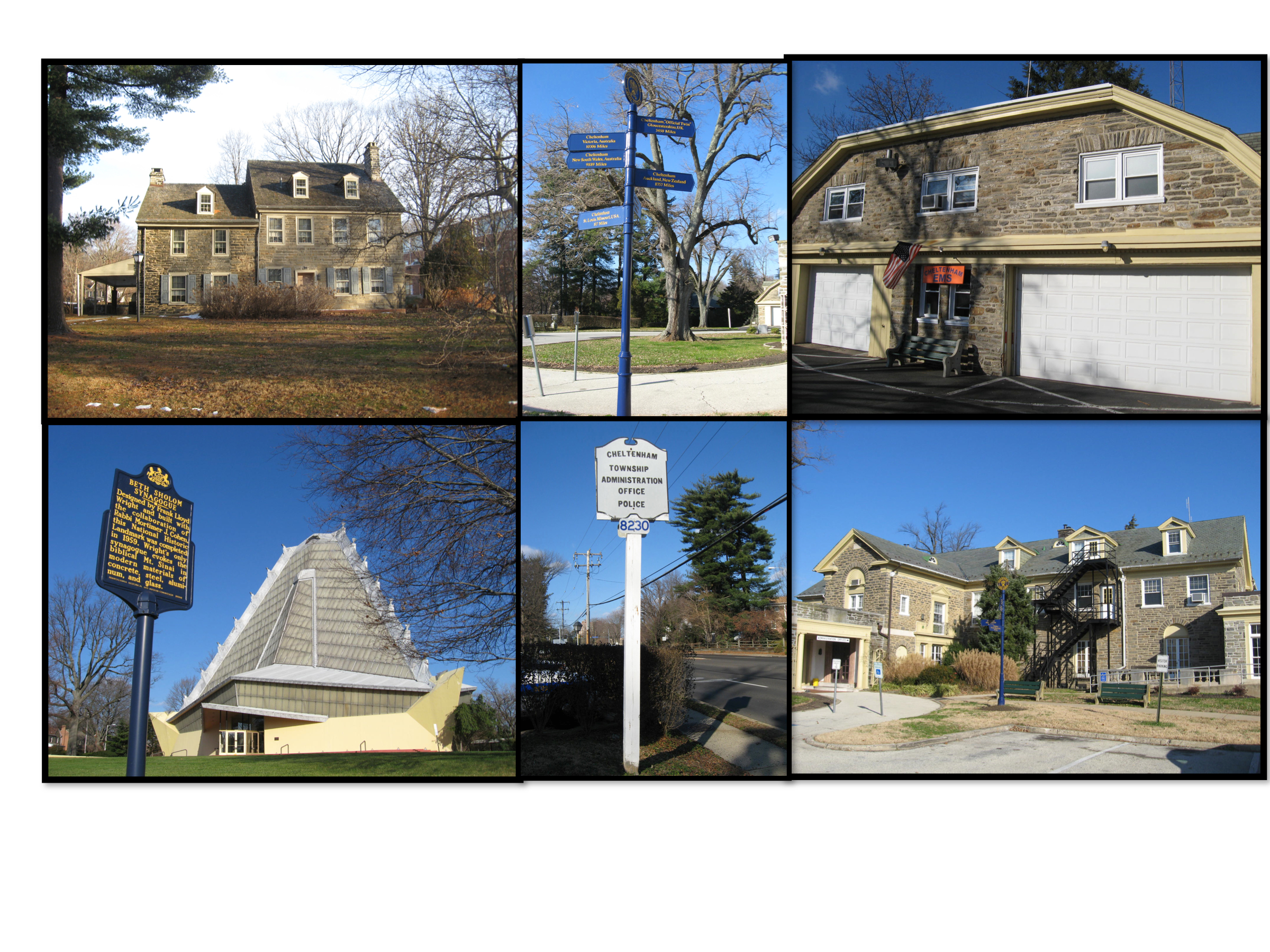 A collage of places in Elkins Park, PA